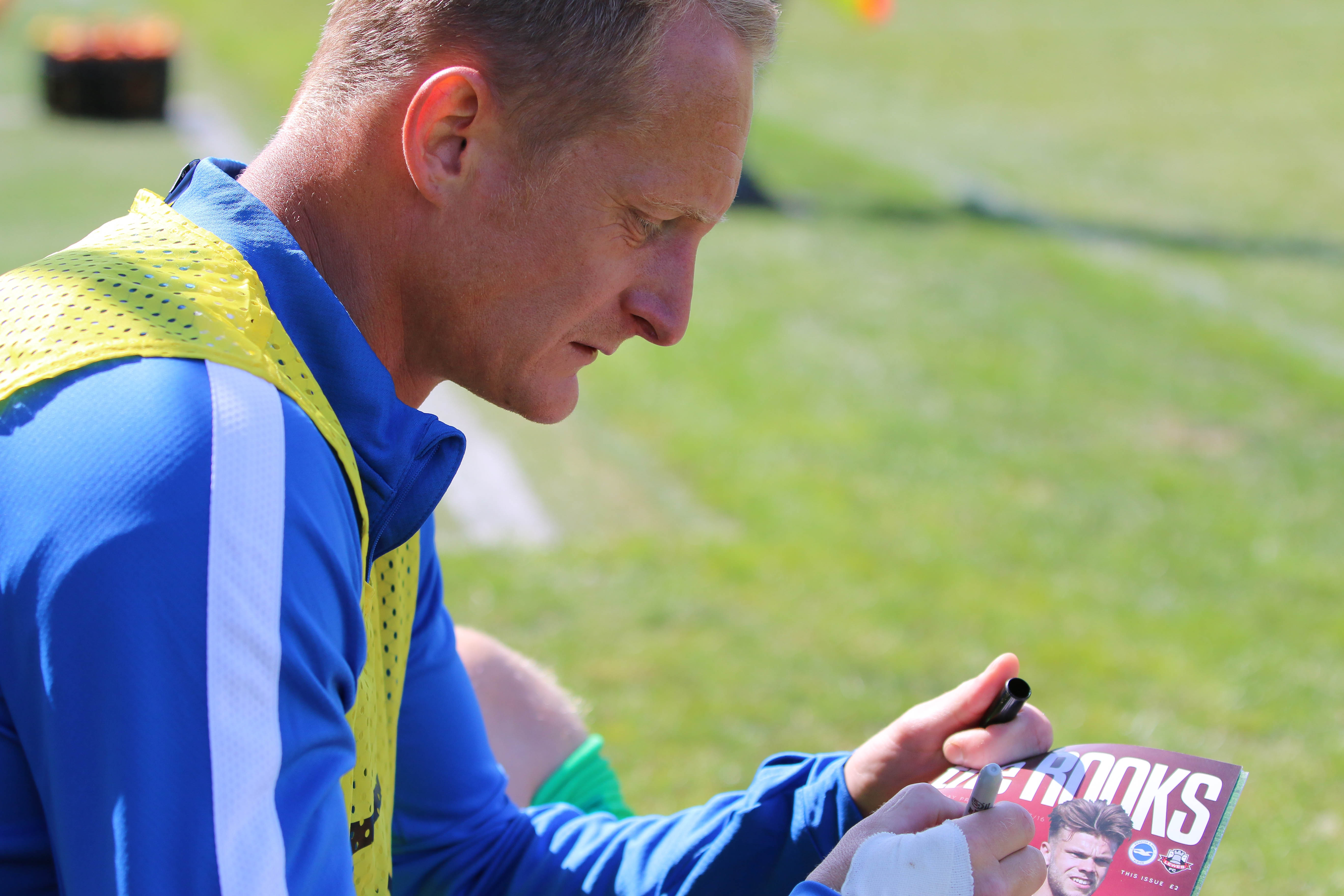 Lewes 0 BHA 0 18 July 2015-758.jpg